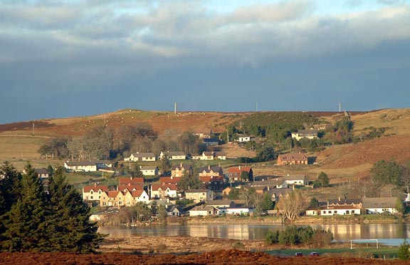 The village of Lairg in the Highlands This was taken from the Countryside Centre. Lairg is a good place to stay in the Highlands as it is fairly central to the West, North and East.